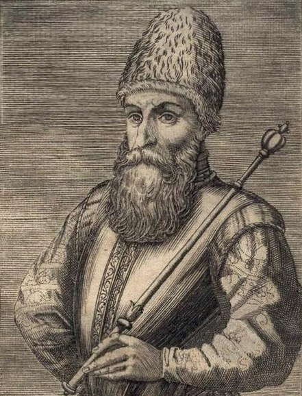 "Simeon prencipe de Giorgiani", probably king Simon I of Kartli